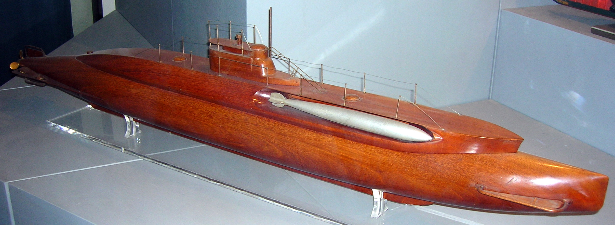 Model of submarine L'Algérien (Q12).